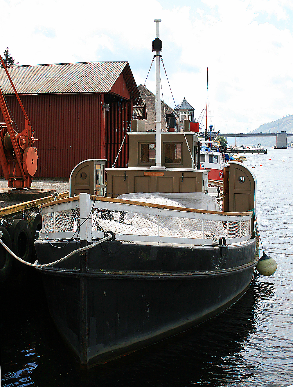 «Hans Martin»; allegedly world's second oldest concrete boat. Porsgrunn, Norway. Built 1918.